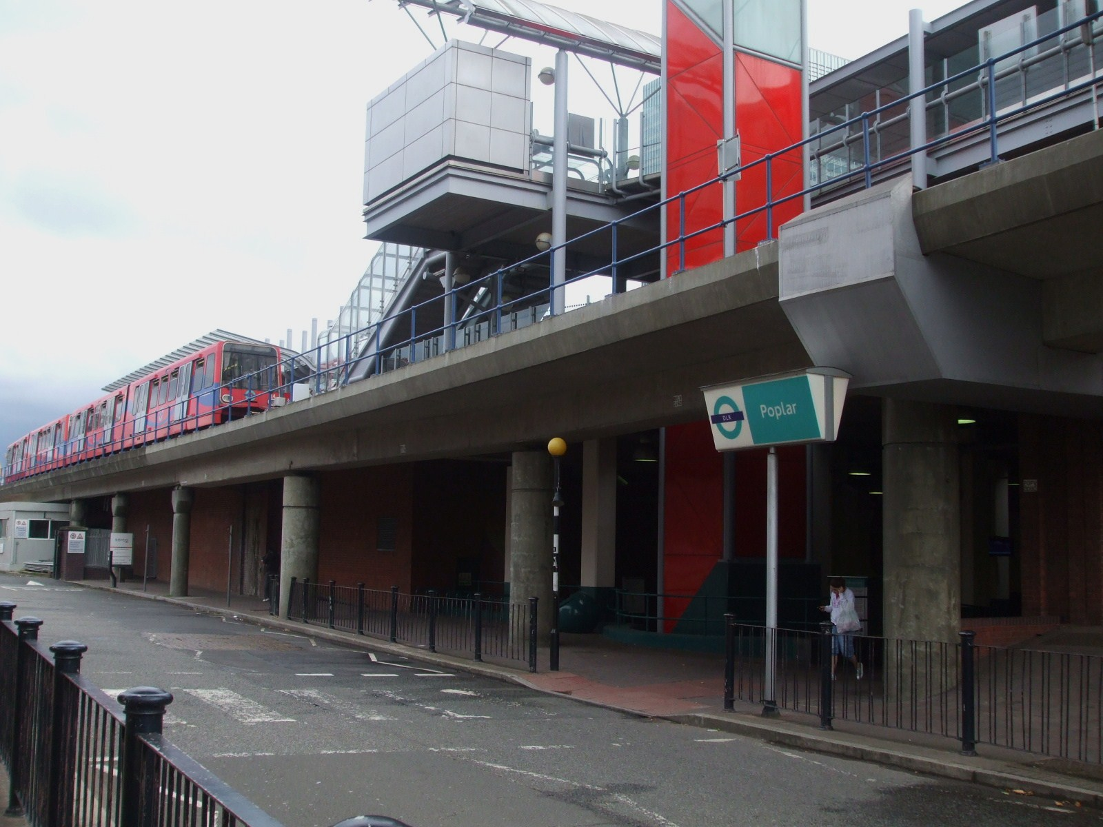 Poplar DLR station main entrance, on the northern side.